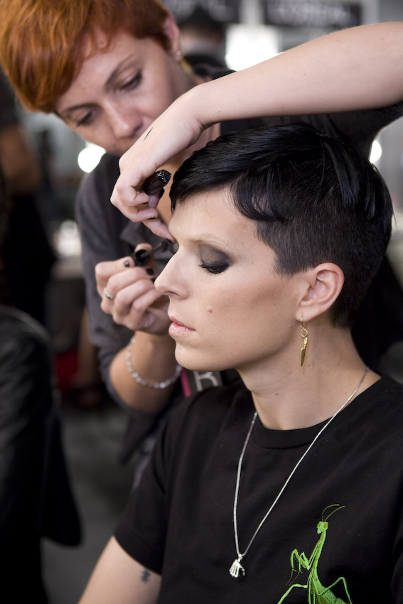 Andrea maquillando a Bimba Bosé